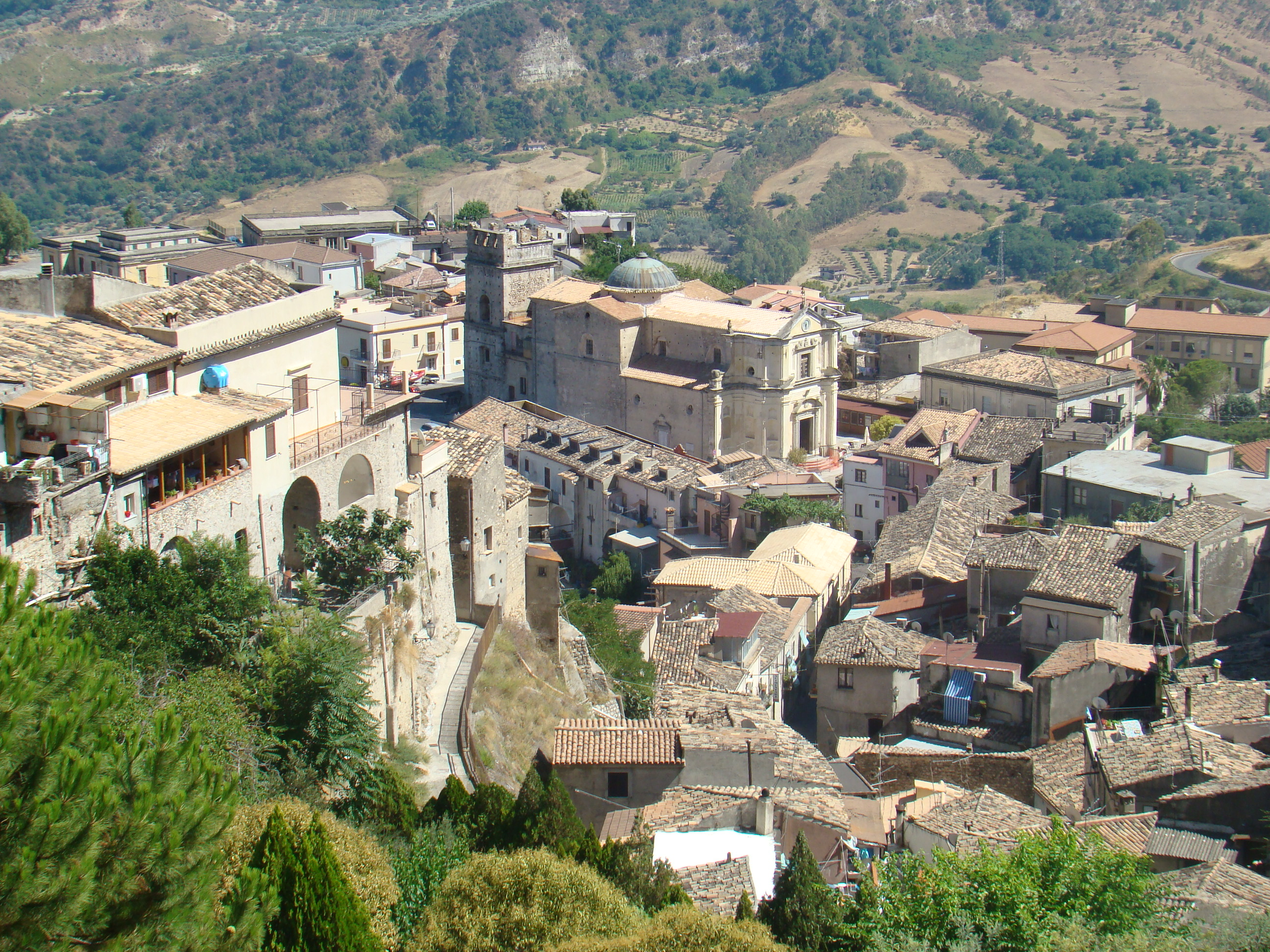 Stilo - town in Calabria.